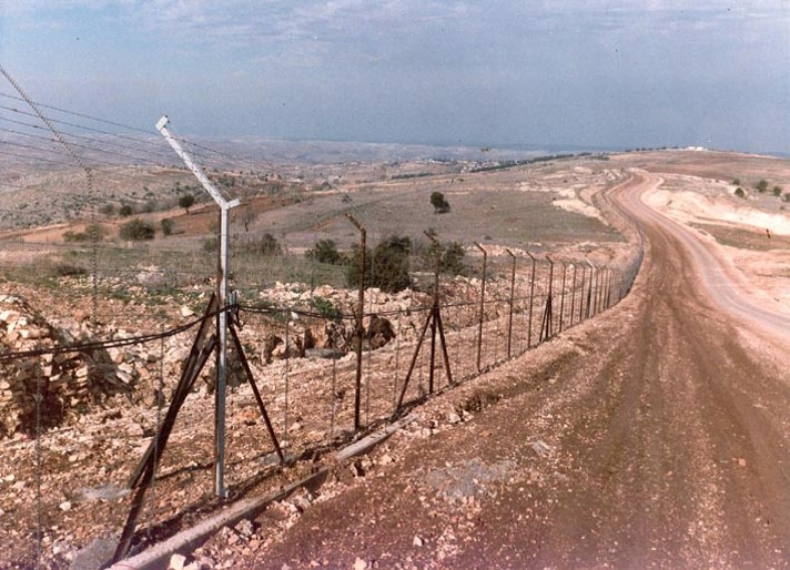 גדר המערכת